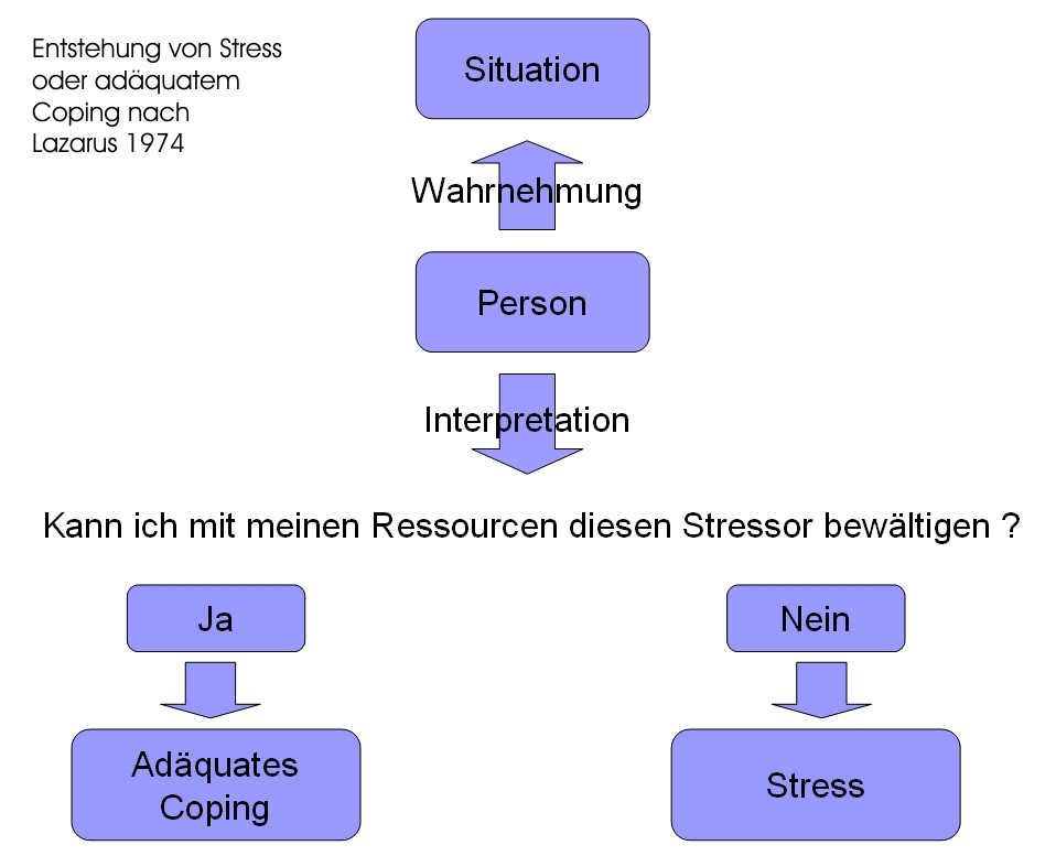 Modell of strees by Richard Lazarus